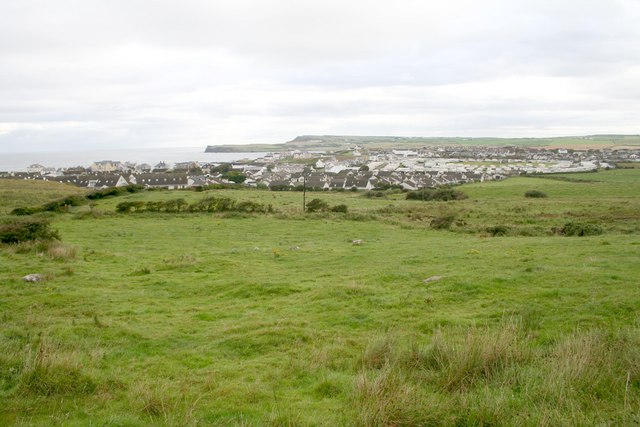 Portballintrae. Looking down on the seaside town and its caravan park from the A2 road to Bushmills.